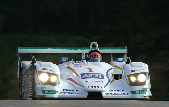 JJ Lehto driving the Audi R8 at Petit Le Mans, 2005